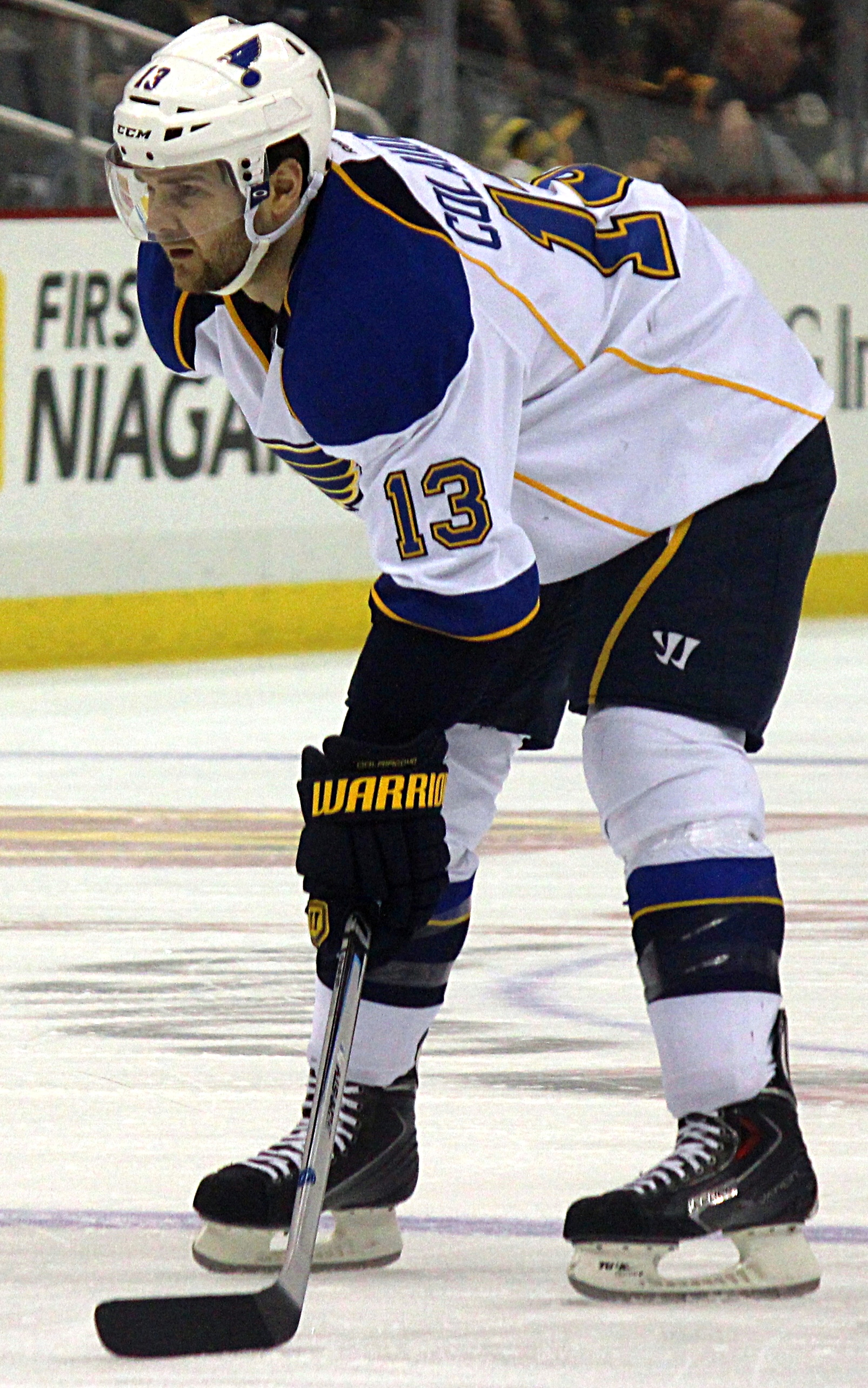 St. Louis Blues defenseman Carlo Colaiacovo during a game against the Pittsburgh Penguins, March 23, 2014, at Consol Energy Center in Pittsburgh, PA.